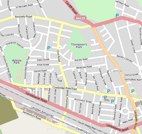 Location of Thompson's Park within Canton OpenStreetMap cut-out (or derivative work based on it): without further description This cut-out may be incomplete, and may contain errors, or may be obsolete. Don't rely solely on it for navigation. Seek for the present state in original context on the OpenStreetMap wiki page